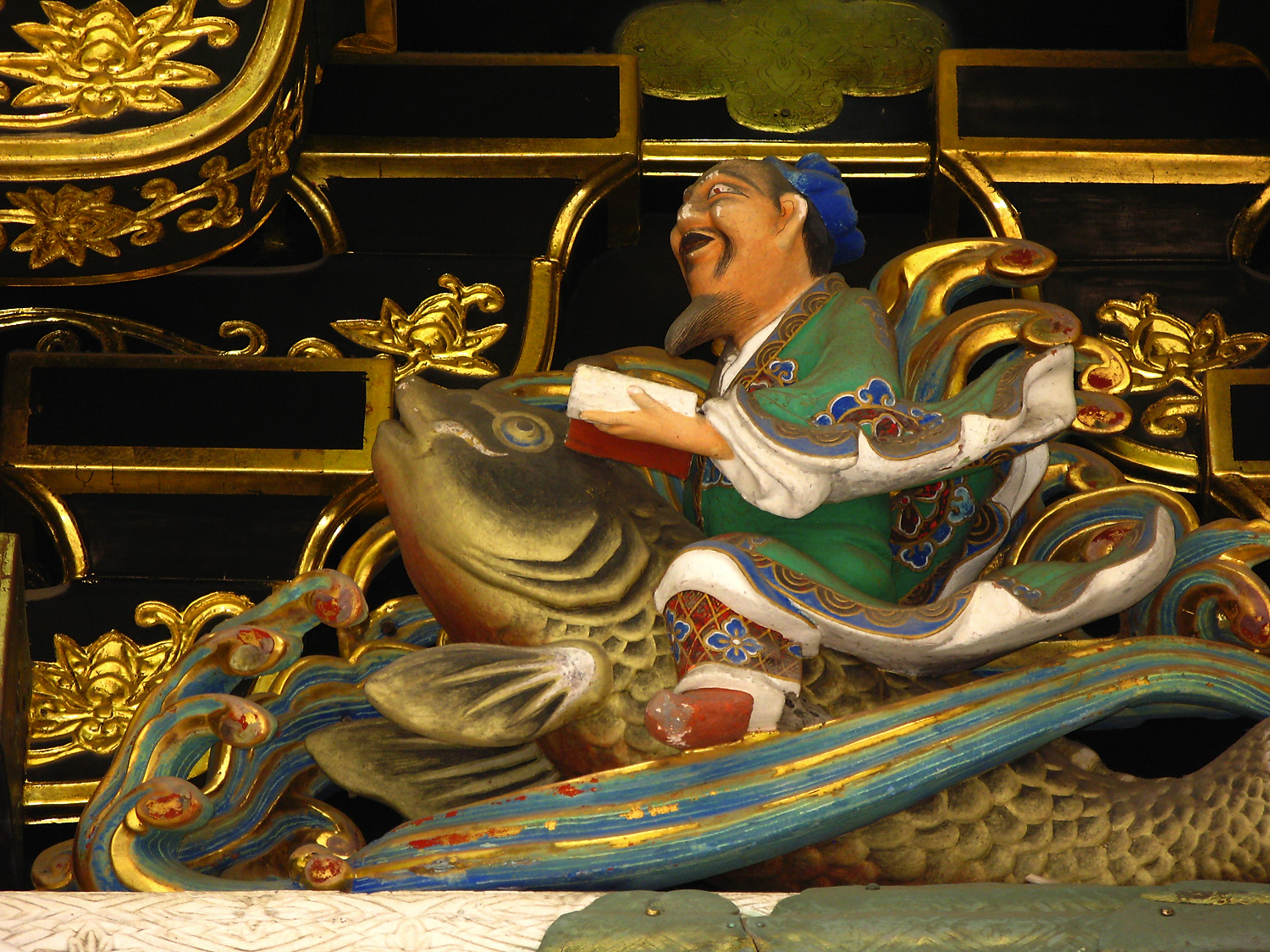 Decorative carving on inside of Yōmeimon at Tōshō-gū, Nikkō, Tochigi Prefecture, Japan